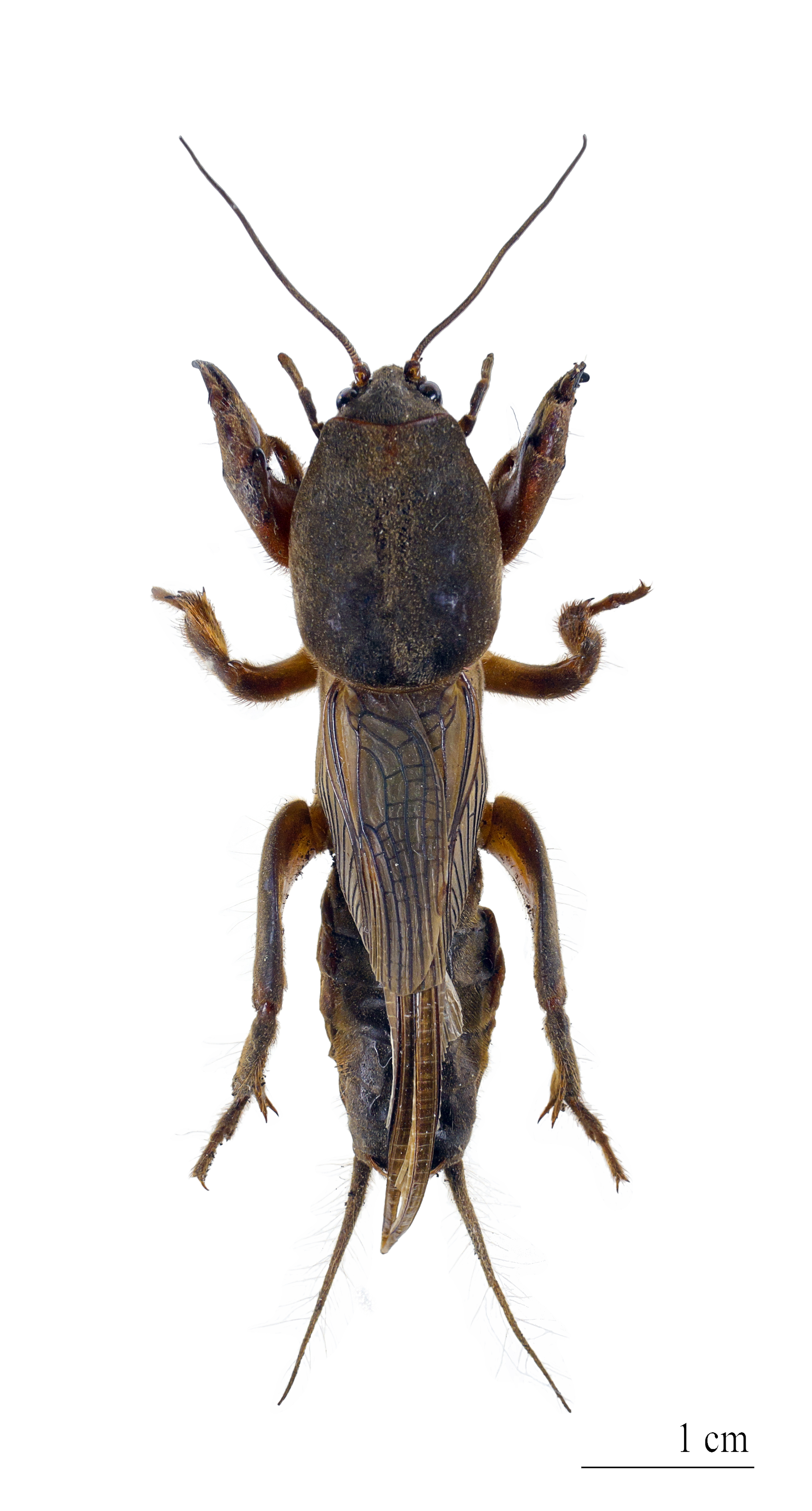 European mole cricket - Male - Dorsal side Locality: Castelnau-de-Brassac Tarn , France